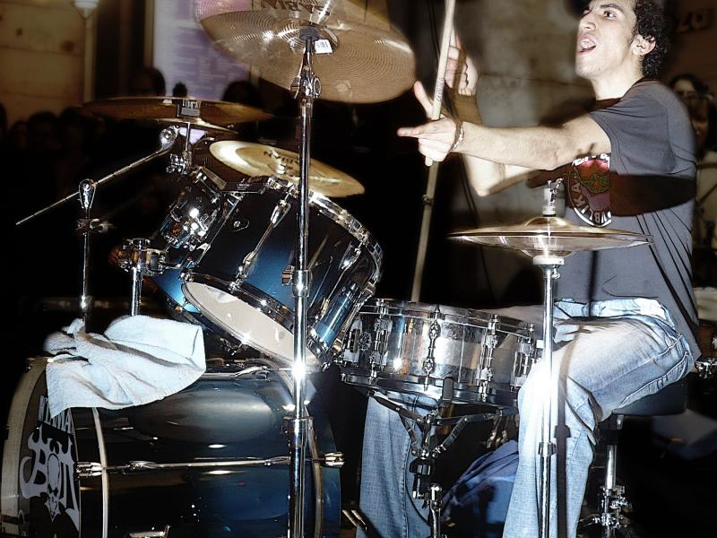 Roscon Rock'09, Zaragoza. Shots in the street while playing live. Flash hand shoted.